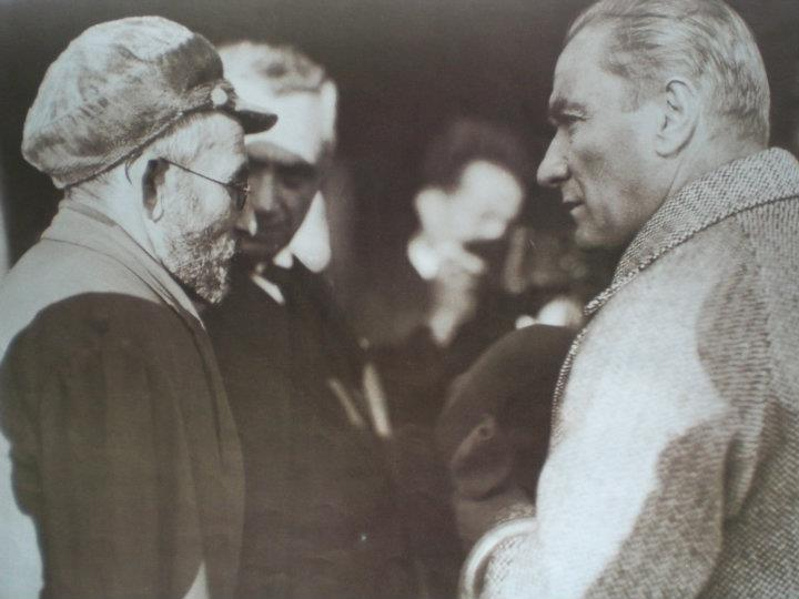 Kemal Atatürk (or alternatively written as Kamâl Atatürk, Mustafa Kemal Pasha until 1934, commonly referred to as Mustafa Kemal Atatürk; 1881 – 10 November 1938) was a Turkish field marshal, revolutionary statesman, author, and the founding father of the Republic of Turkey, serving as its first President from 1923 until his death in 1938. He undertook sweeping progressive reforms, which modernized Turkey into a secular, industrial nation. Ideologically a secularist and nationalist, his policies and theories became known as Kemalism. Due to his military and political accomplishments, Atatürk is regarded as one of the most important political leaders of the 20th century.